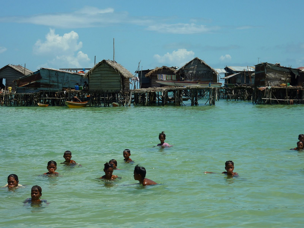 Omadal reception by villagers